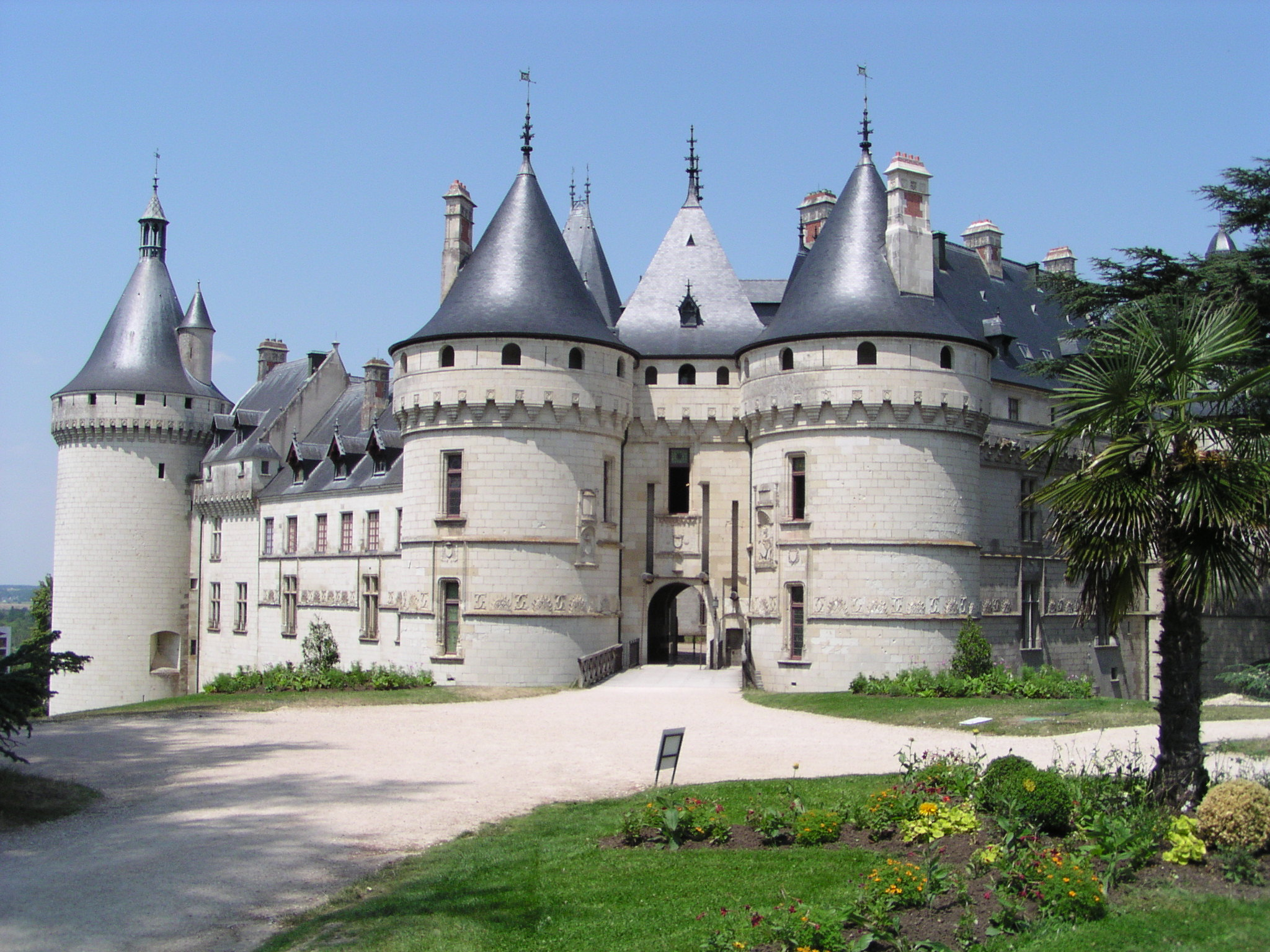 Château de Chaumont, a Châteaux of the Loire Valley